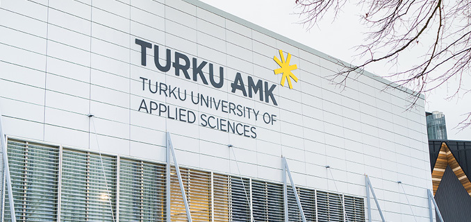 Turku University of Applied Sciences campus on Lemminkäisenkatu Turku, Finland